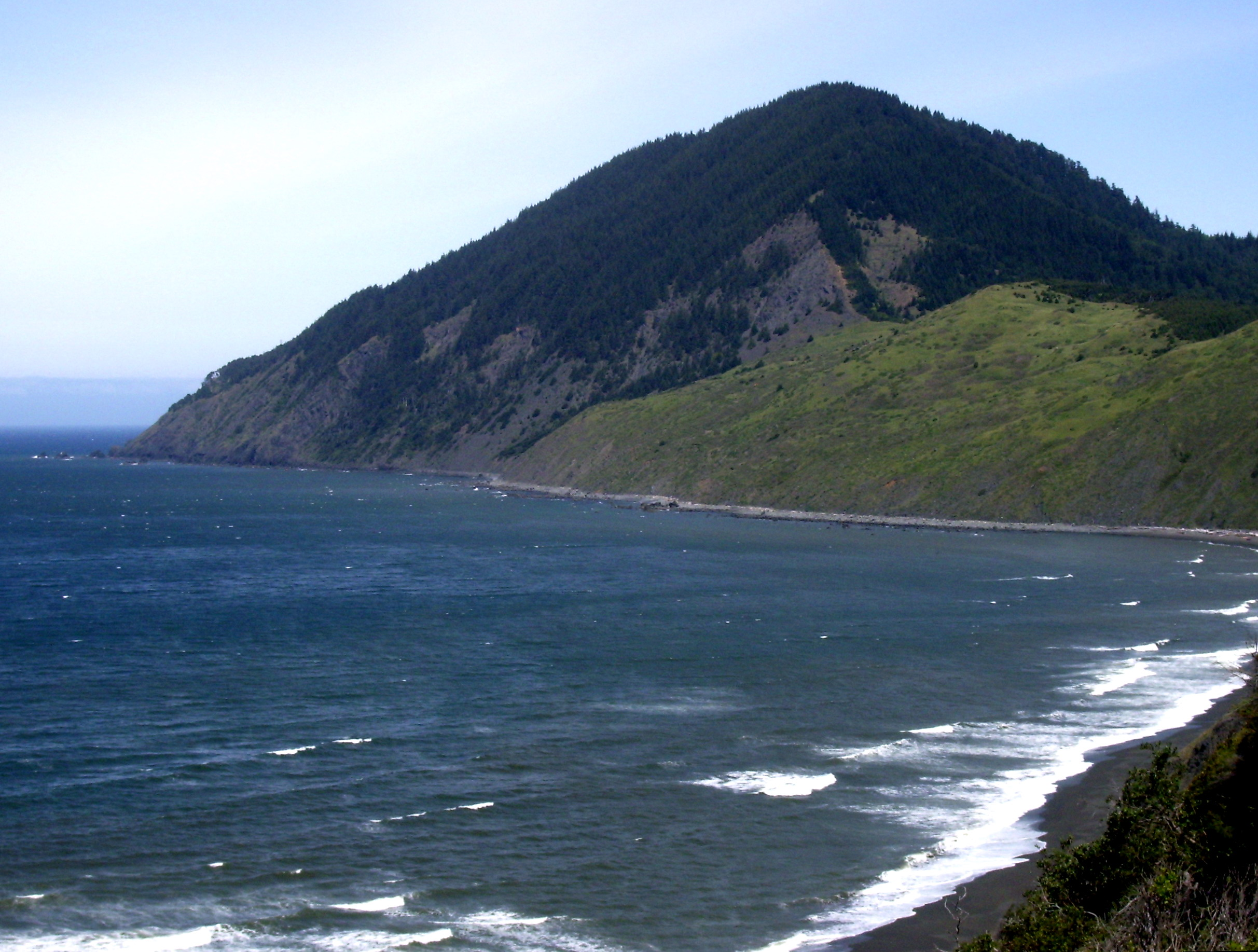 Humbug Mountain on the Oregon Coast seen from the south